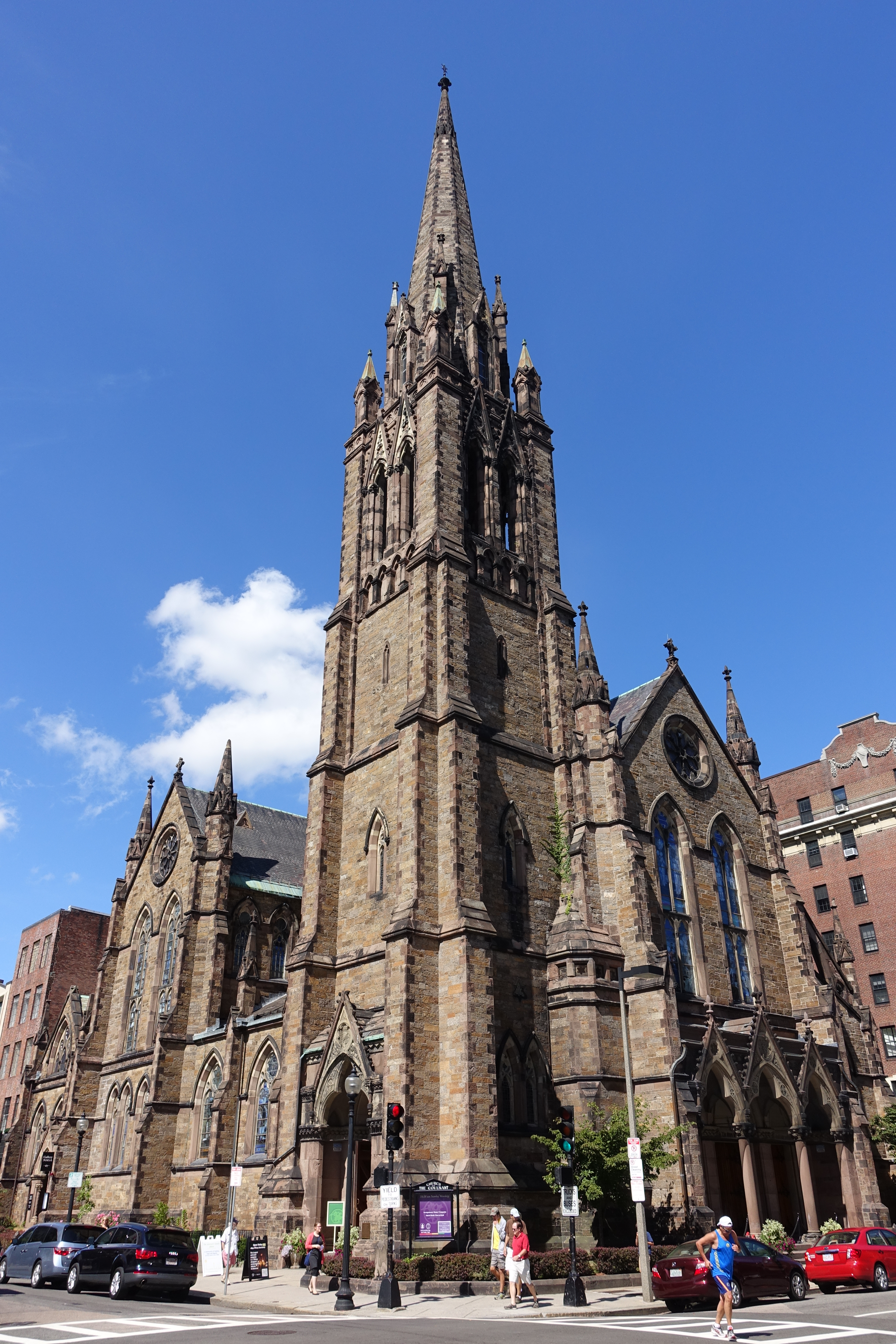 Church of the Covenant, 67 Newbury Street, Boston, Massachusetts, USA.